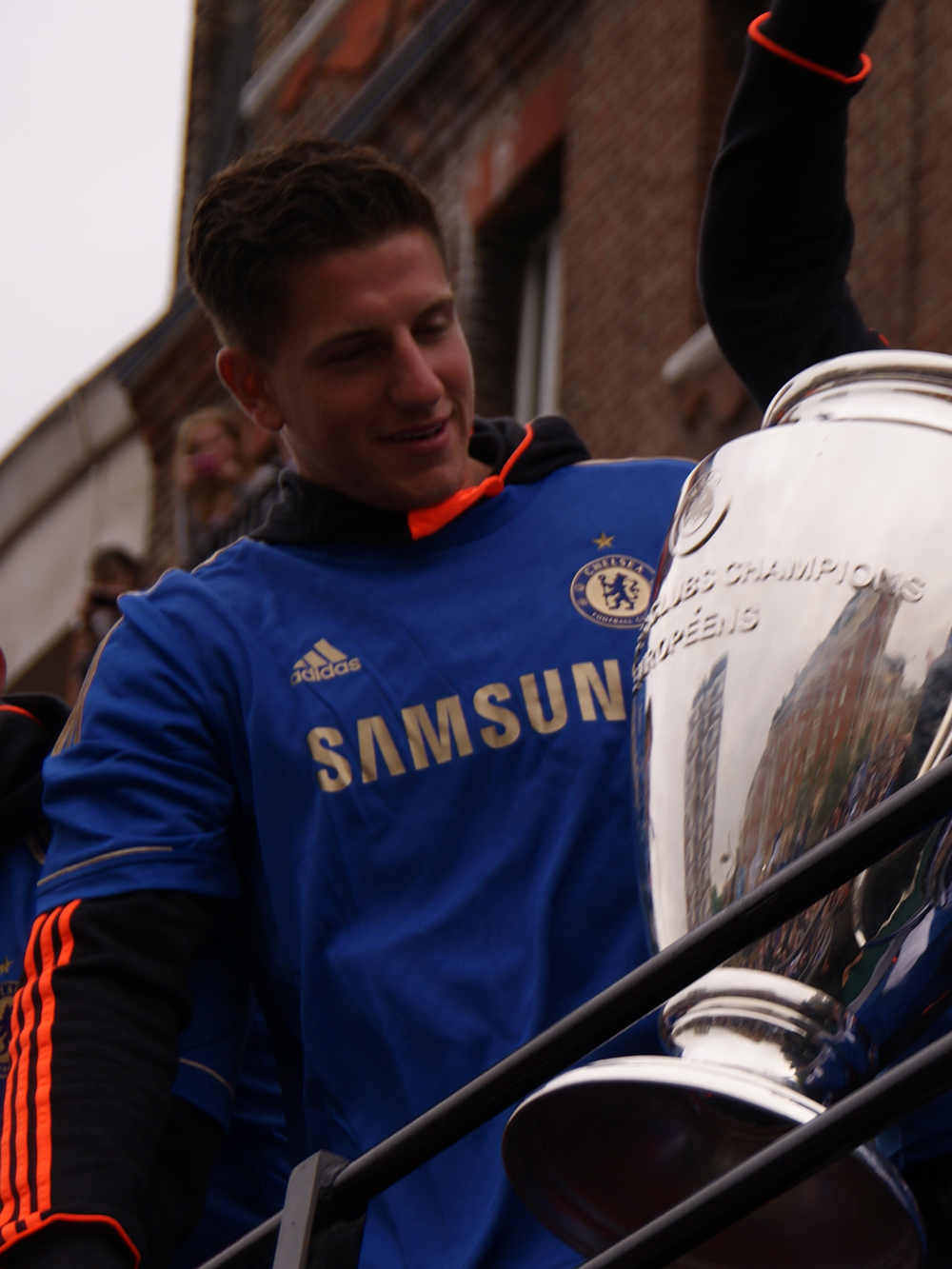 This photo was taken on Sunday 20th May 2012 during the Chelsea Football Club Parade following Chelsea's victory in the European Champions League Final.